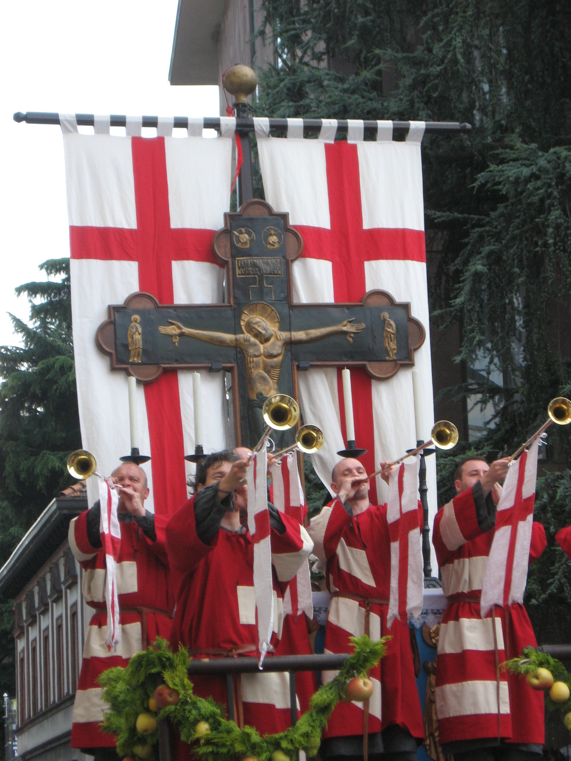 Carroccio in the course of the historic parade of 2007